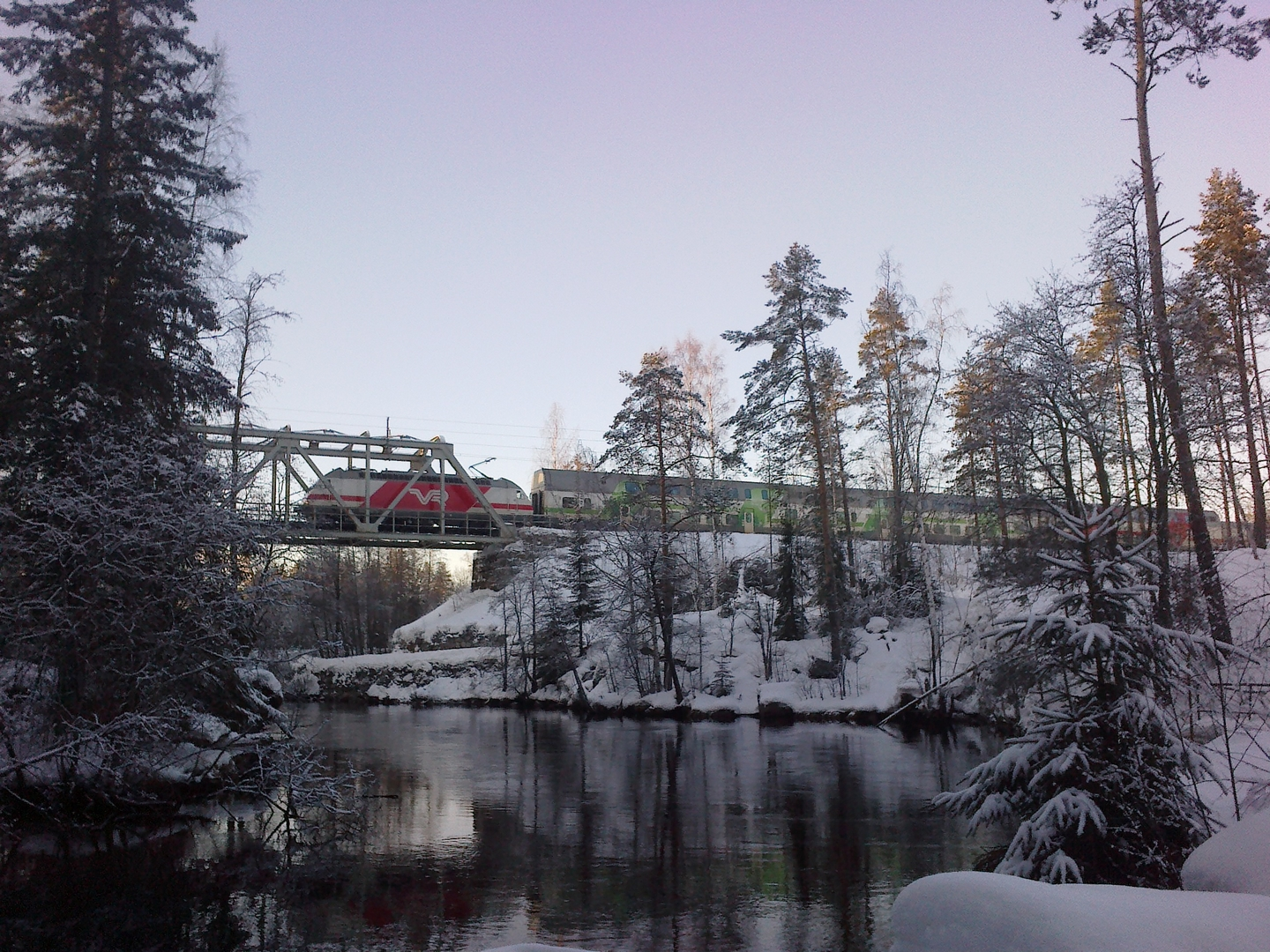 An InterCity train just departed from Simpele railway station crossing Hiitolanjoki river railway bridge.